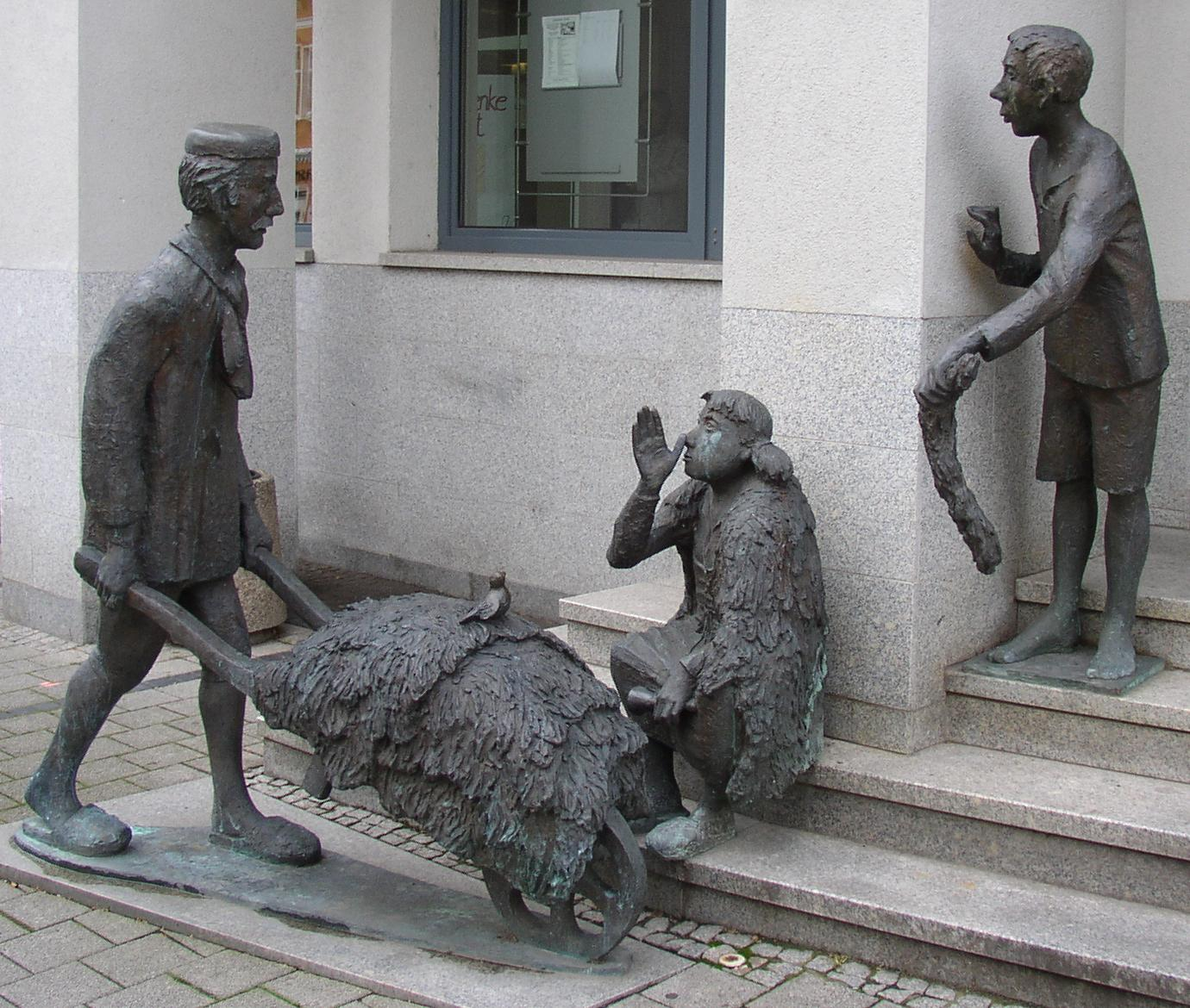 „Fur trader“, Sculptures by Werner Löwe in Leinefelde in Thuringia, Germany